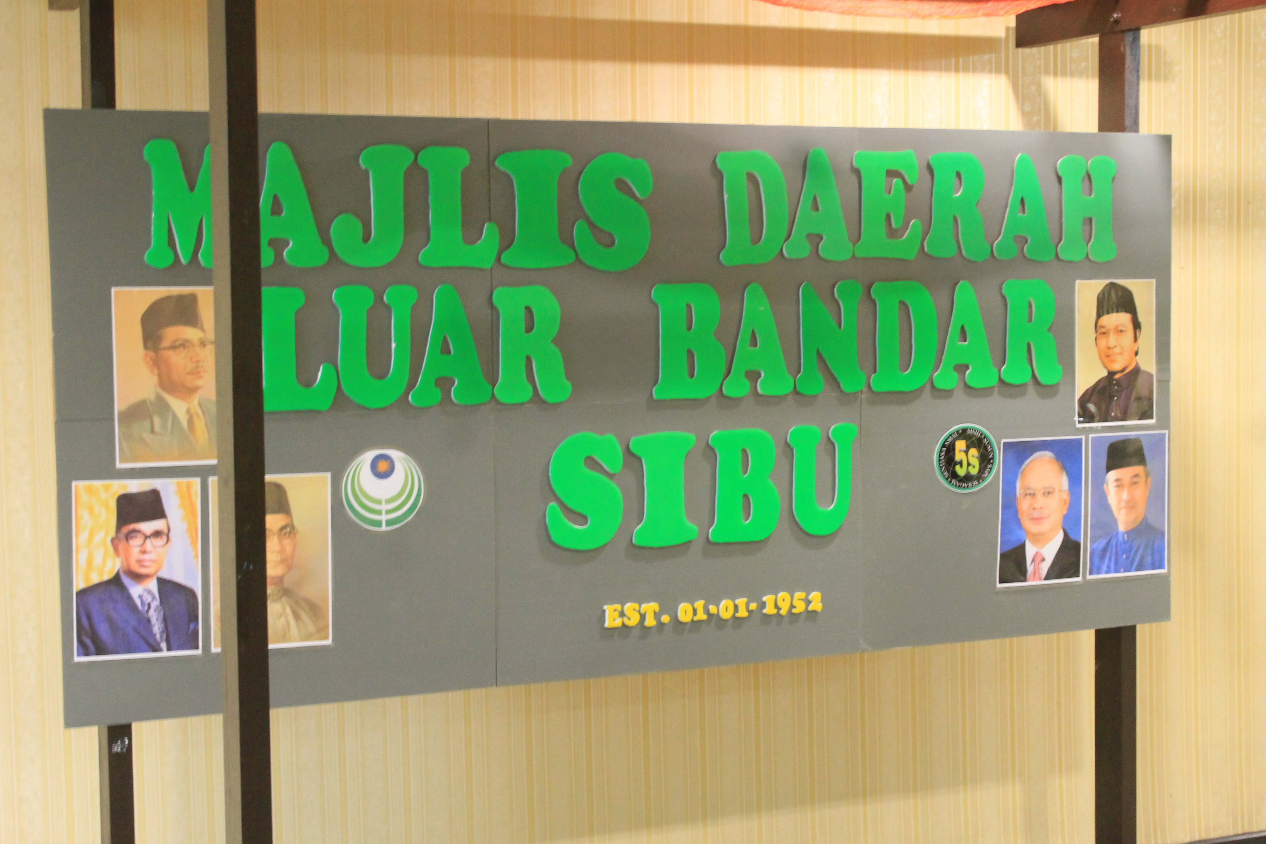 SRDC on 18th floor Wisma Sanyan.